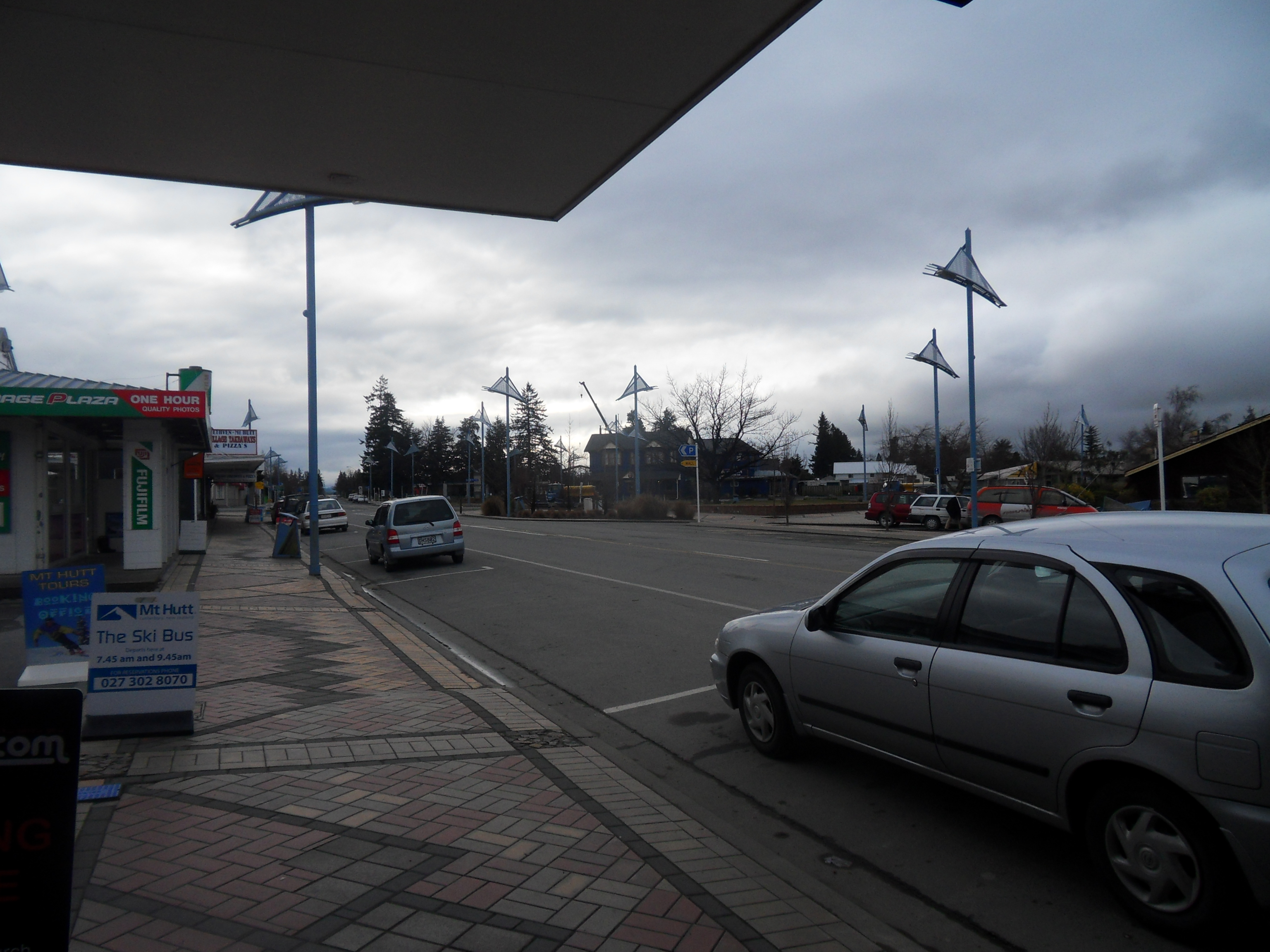 Methven Town Centre, Canterbury, New Zealand.